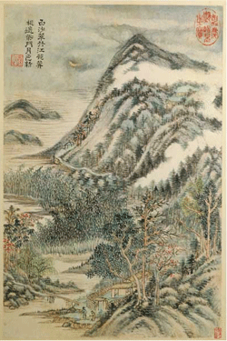 Painting by Wang Shimin from the album of 12 paintings Landscapes Inspired by Du Fu's Poetry, China, Qing Dynasty, dated 1665.